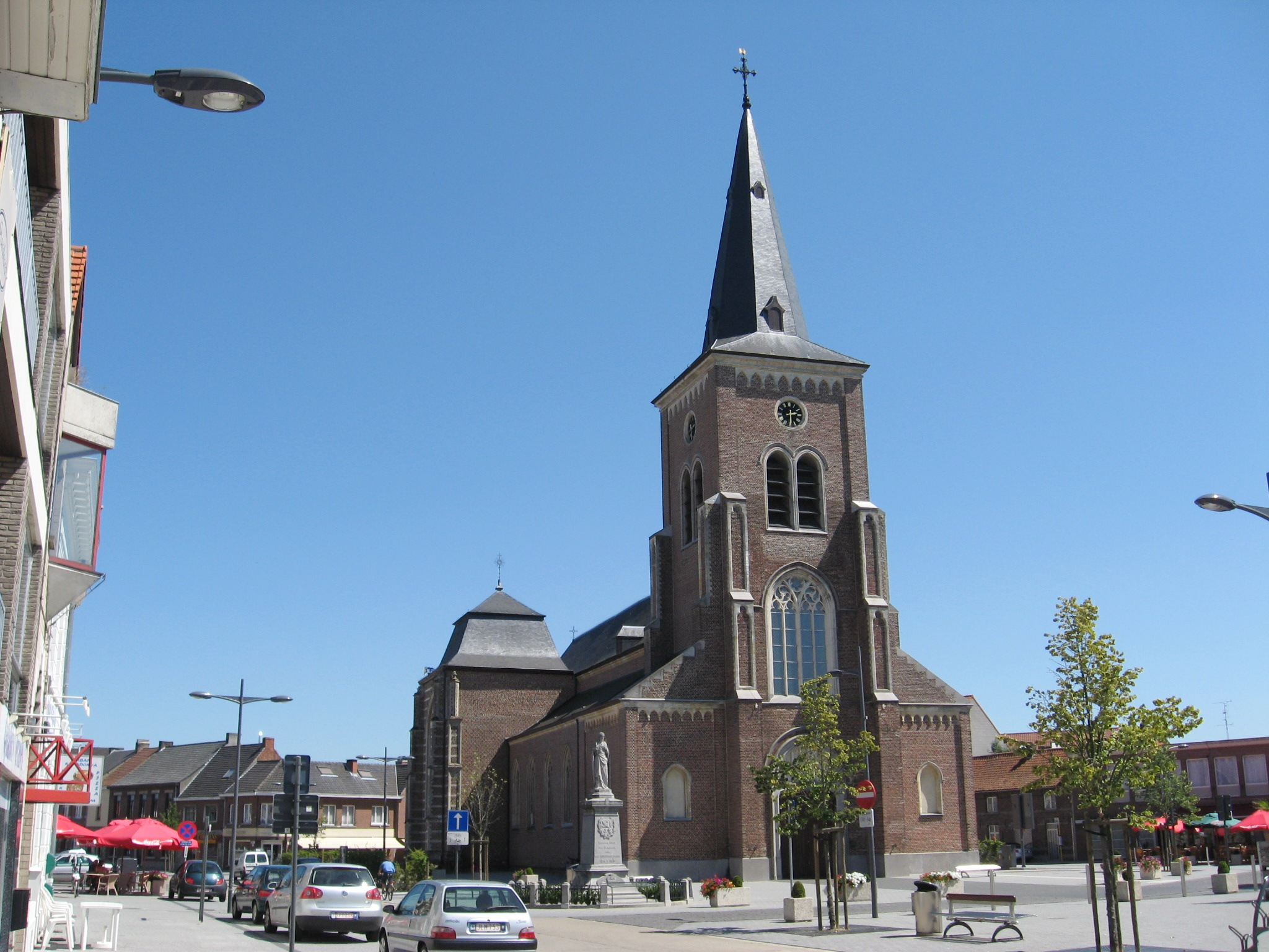 Church of Saint Martin in Herk-de-Stad, Limburg, Belgium